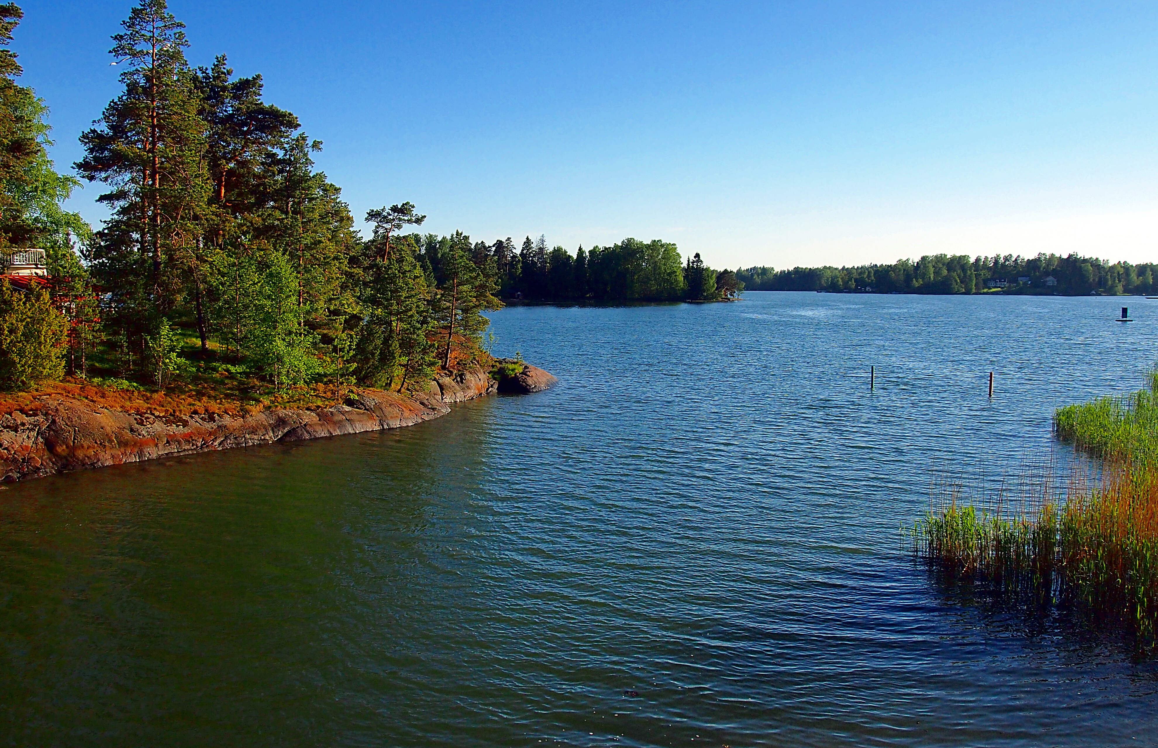 Moisöfjärden in Espoo, Finland. Moisöfjärden is a small bay of the Gulf of Finland.